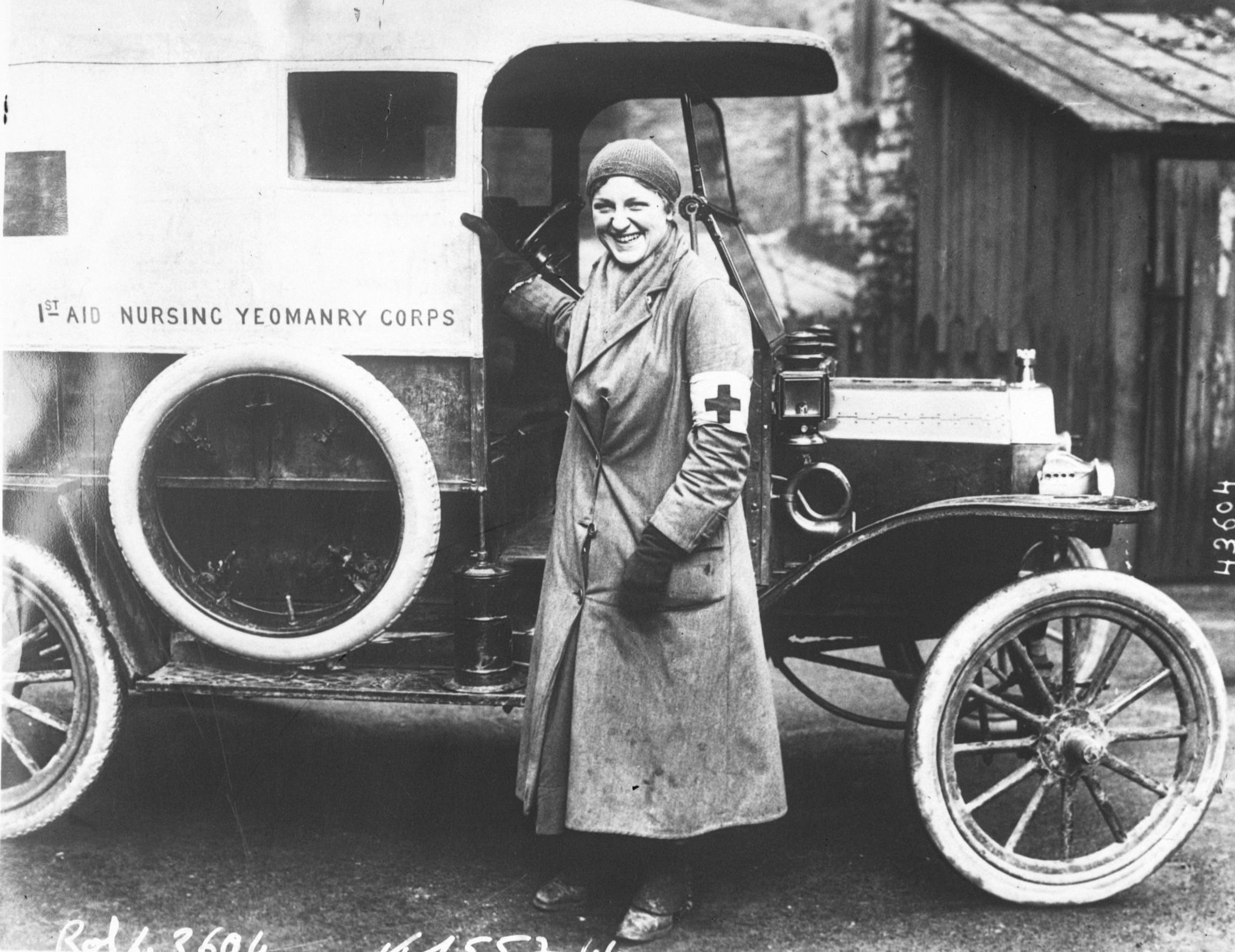 A nurse from the First Aid Nursing Yeomanry Corps standing standing in front of an ambulance in France in 1914